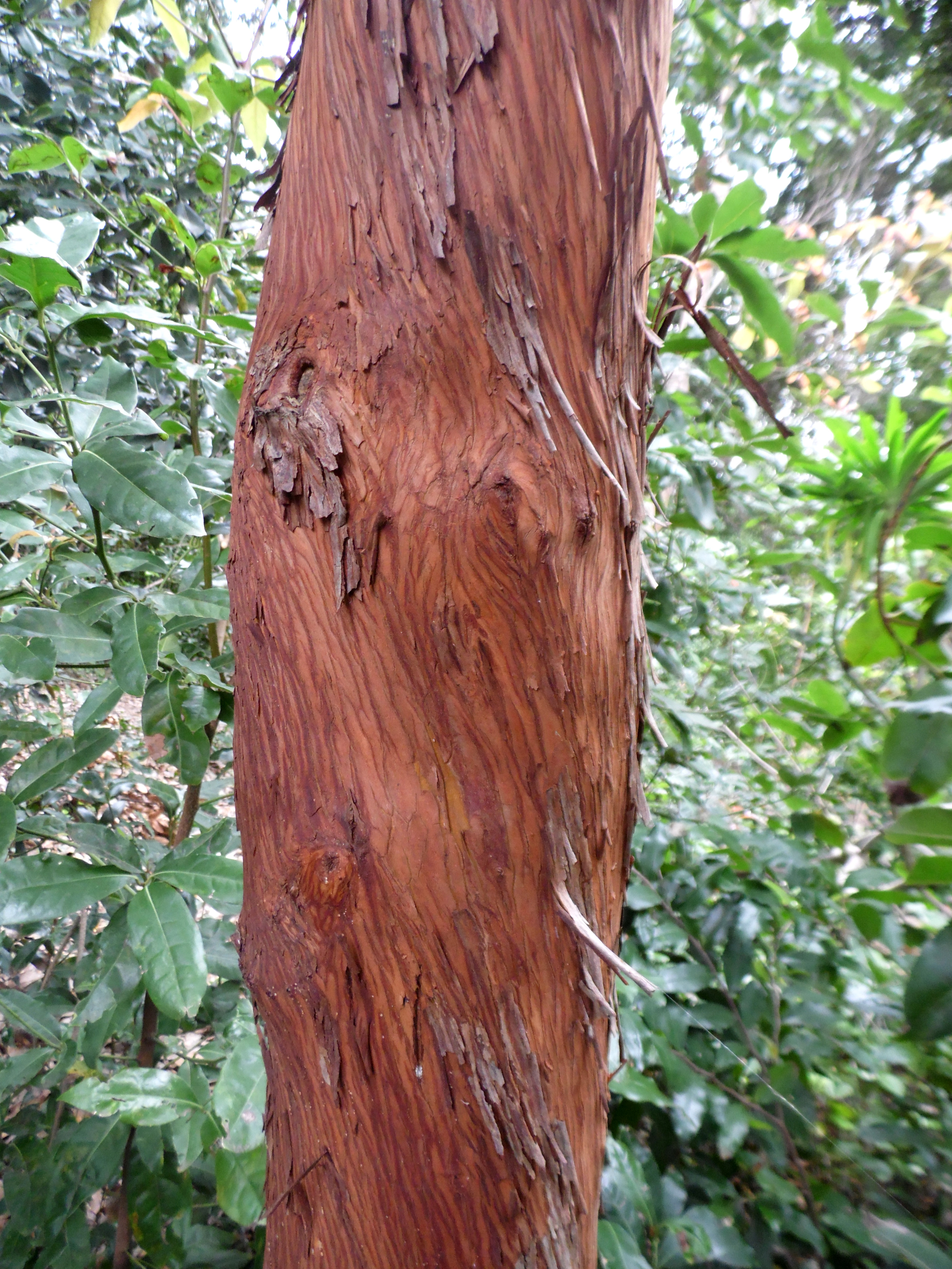 Arbutus canariensis in Jardín Botánico Canario Viera y Clavijo